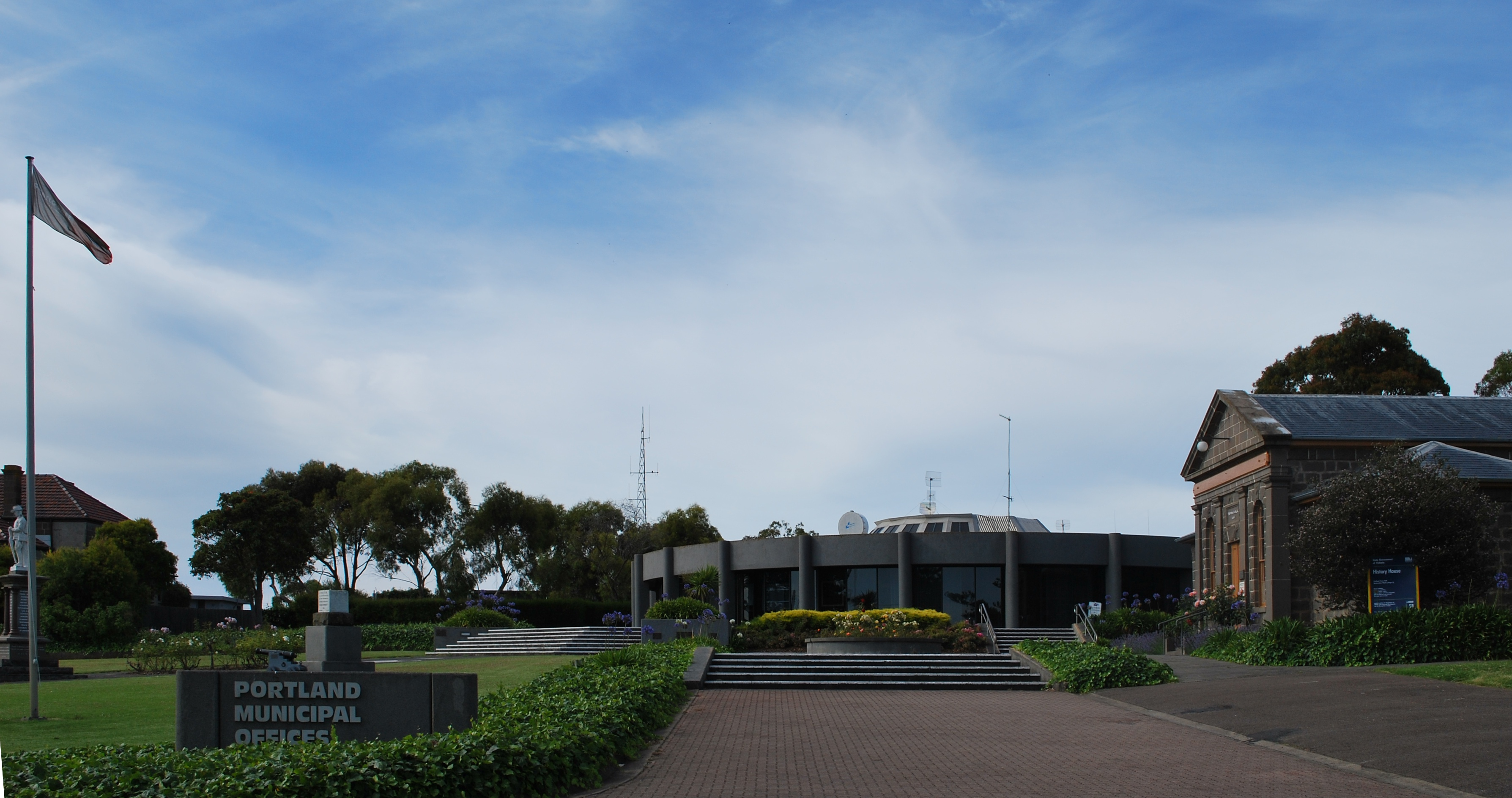 The Portland Municipal Offices, now home to the Shire of Glenelg in Portland, Victoria.